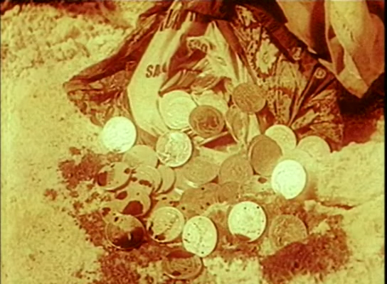 Scenography for the movie Greed. 1924.